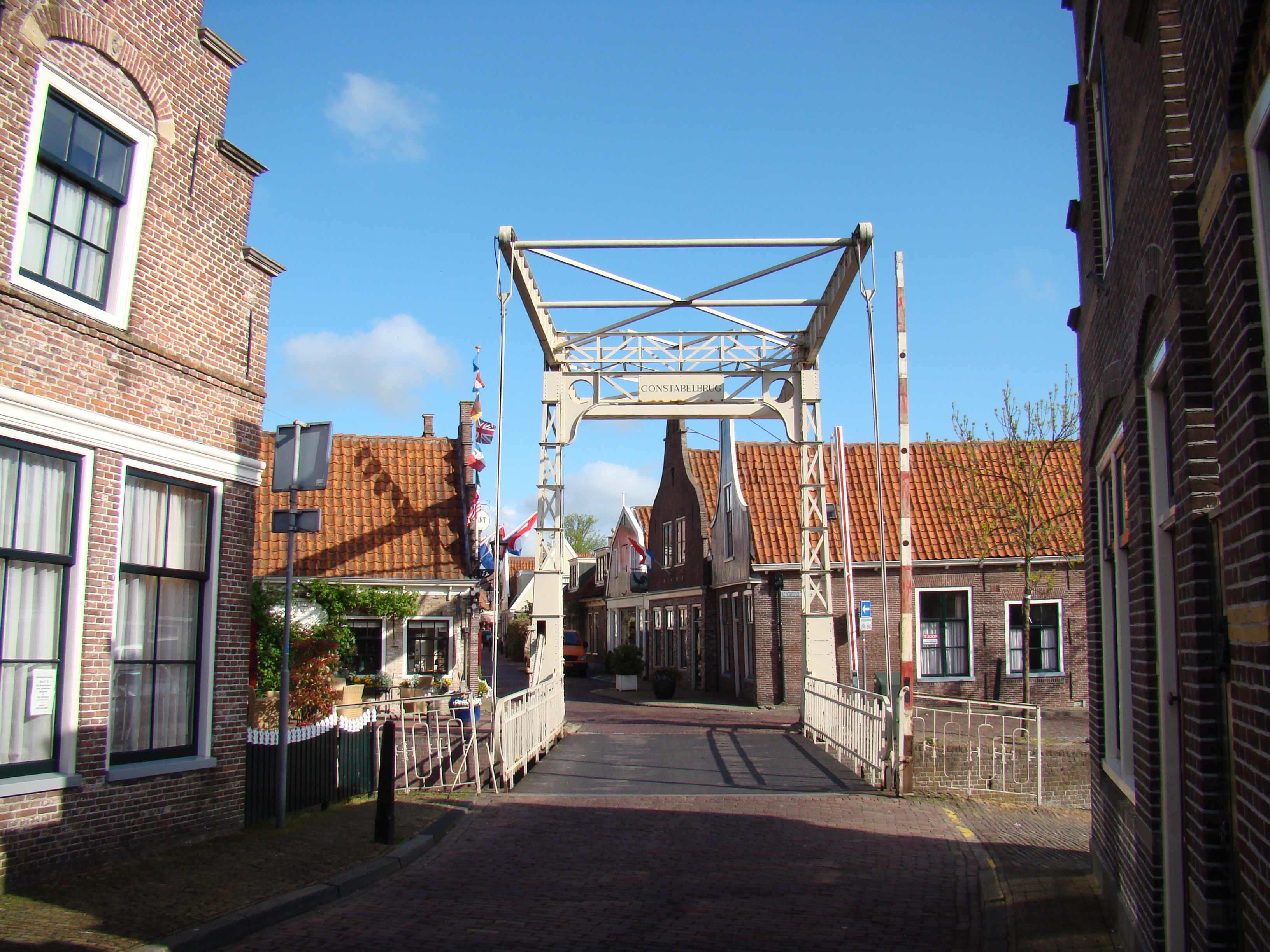 Monumental buildings in Edam (Netherlands)